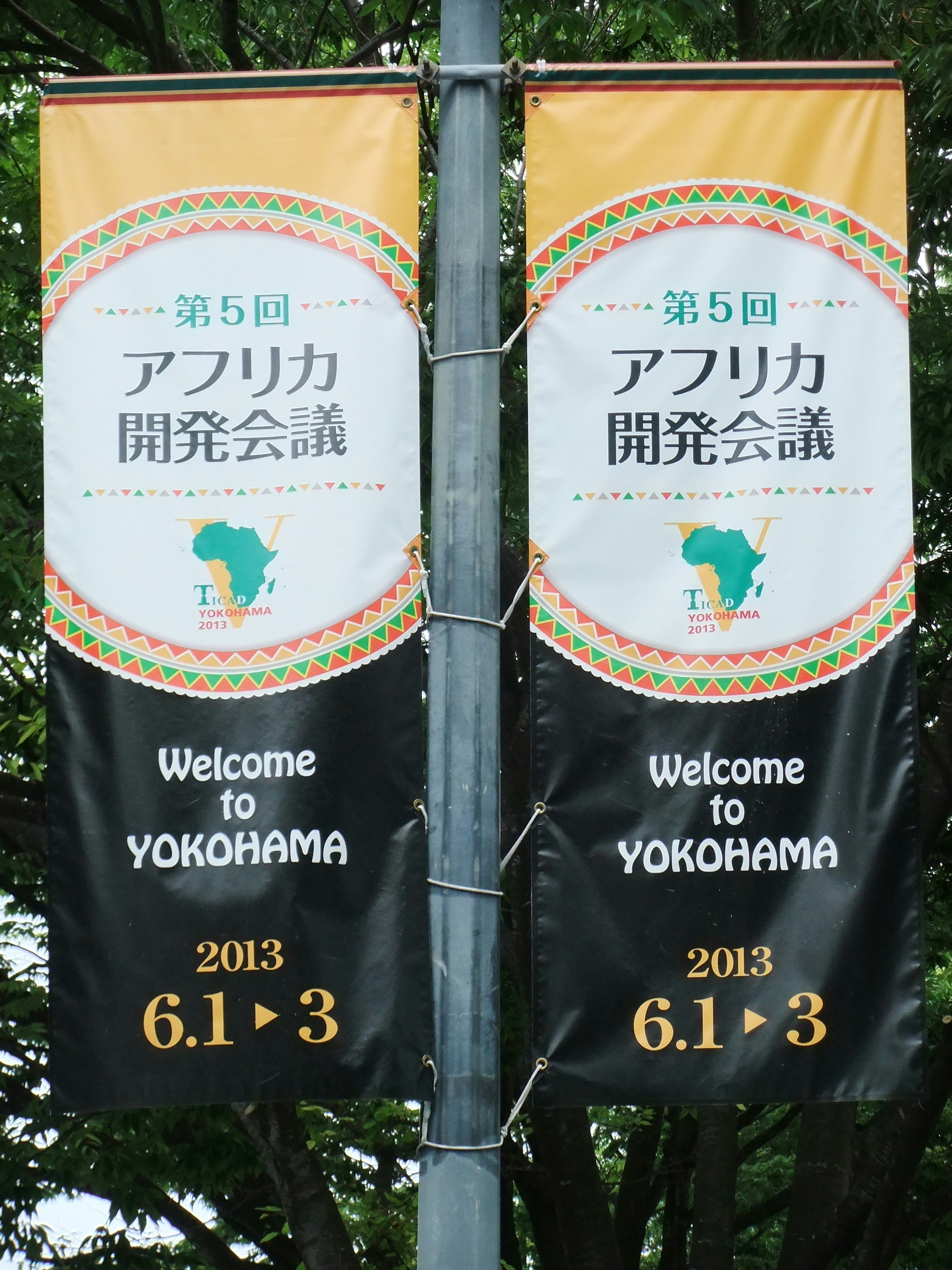 TICAD 5, Banner (yokohama Japan)